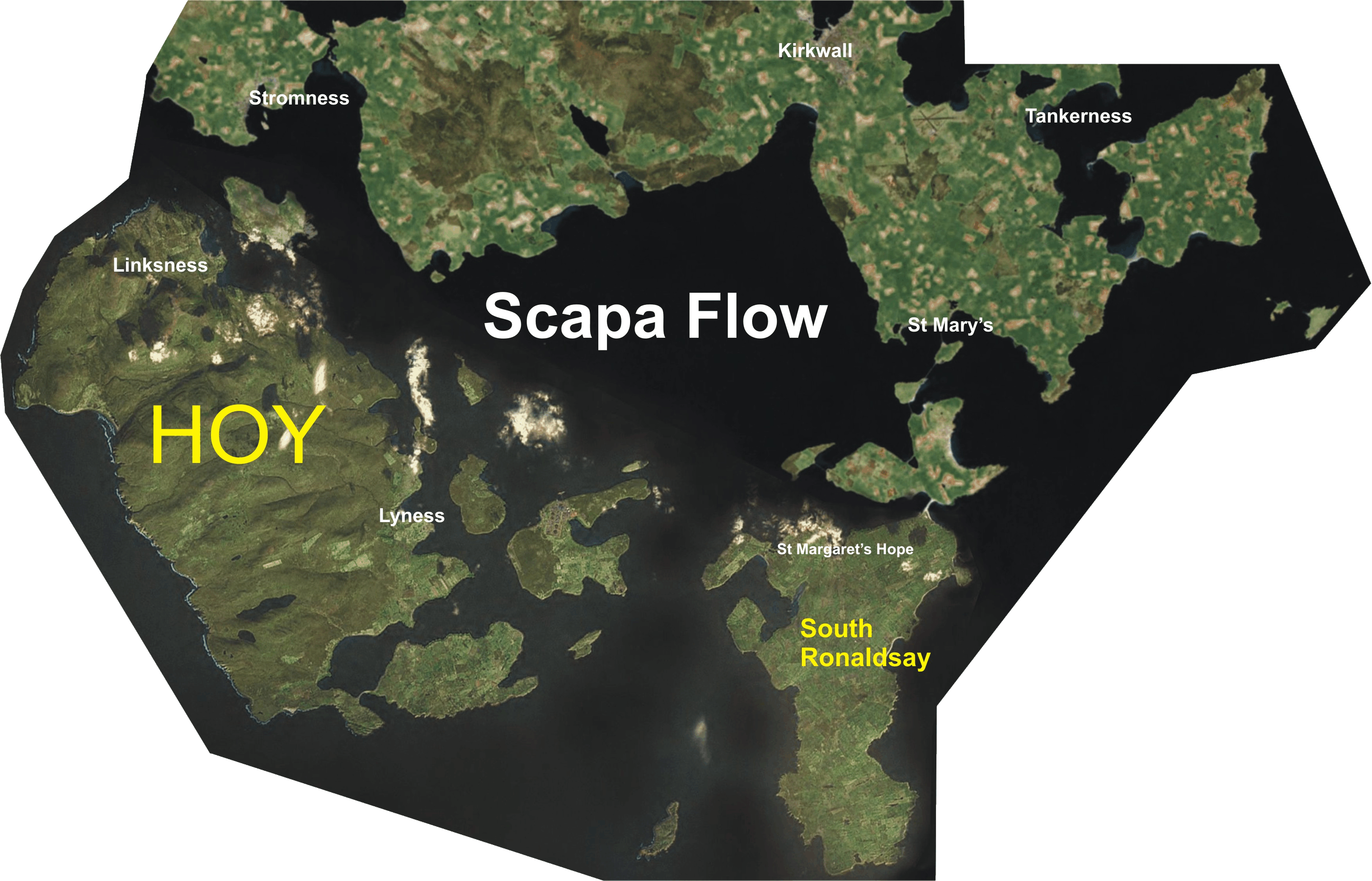 Aerial Photo Map of Scapa Flow